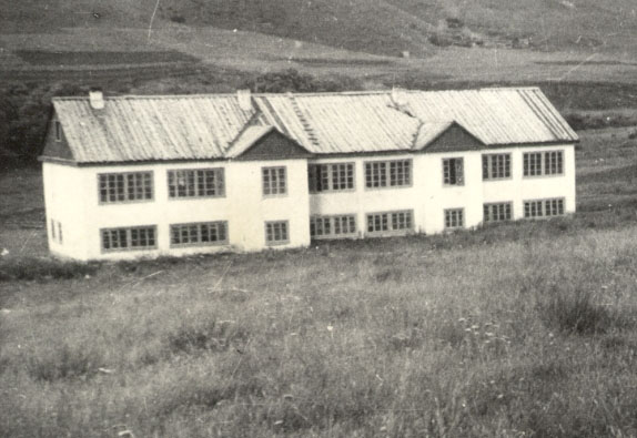 School in Hamhi. 1930s.